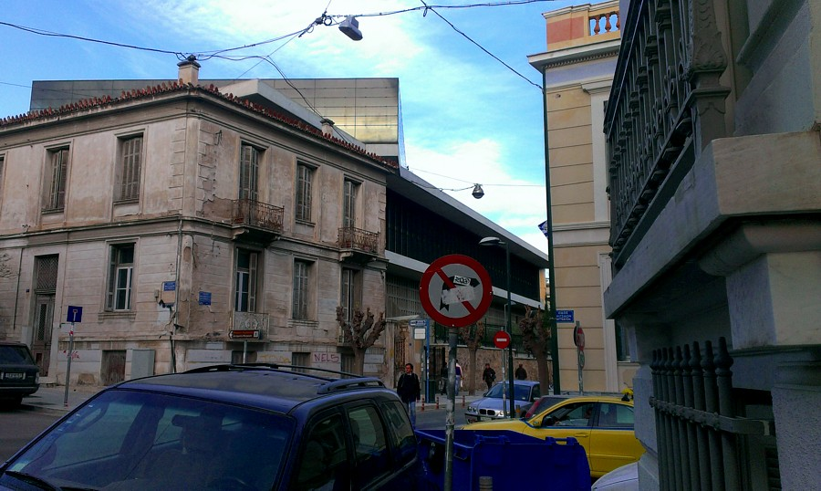 makrygianni